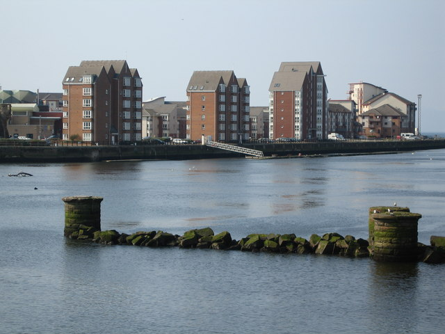 Harbour Development South harbour. Not a boat in sight!